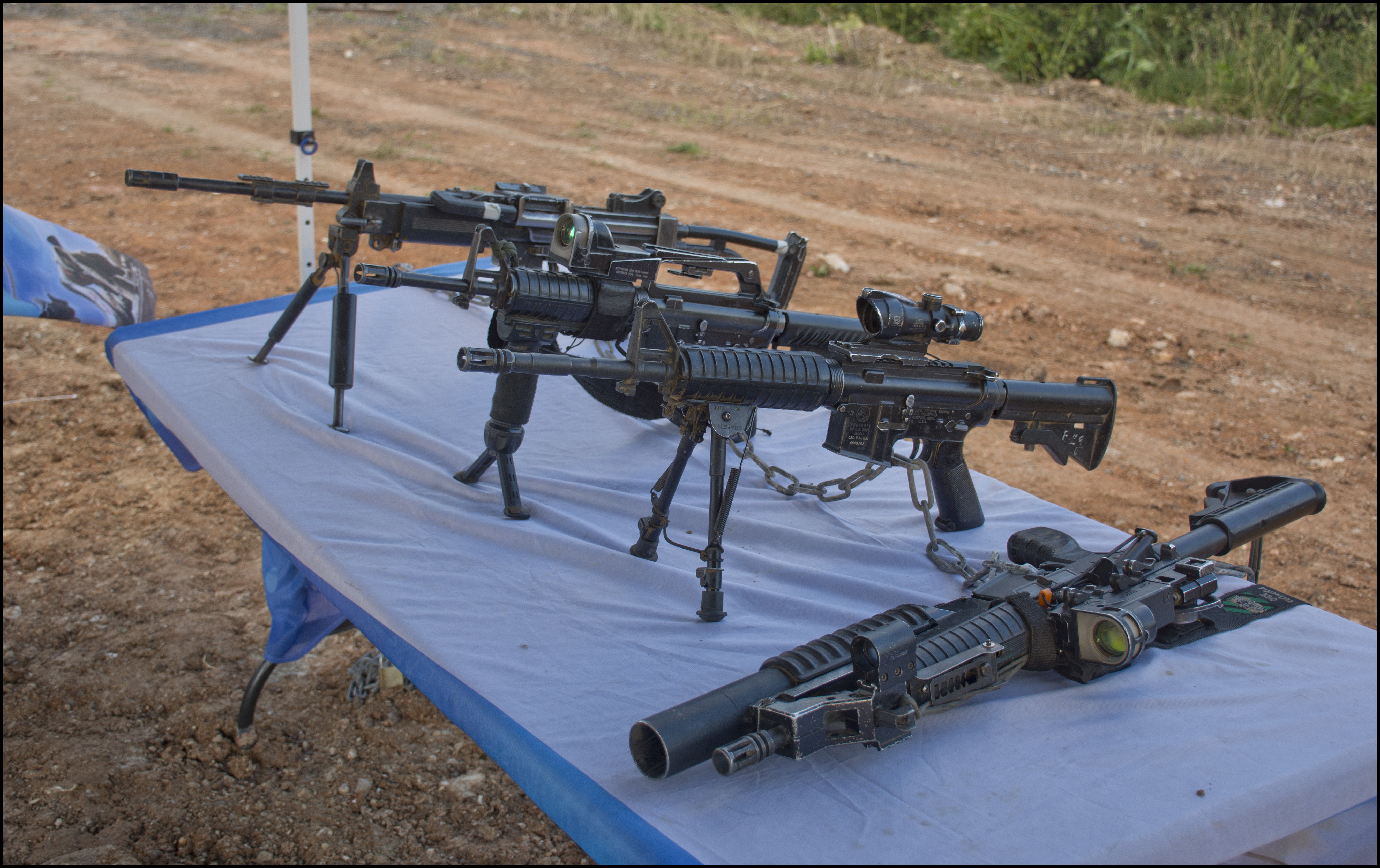 Israel Defense Forces Messayaat Shiryon ("Armored Corps Infantry Companies") light weapons: Negev LMG, M4A1 designated marksman and M4A1+M203, IDF Armored Corps